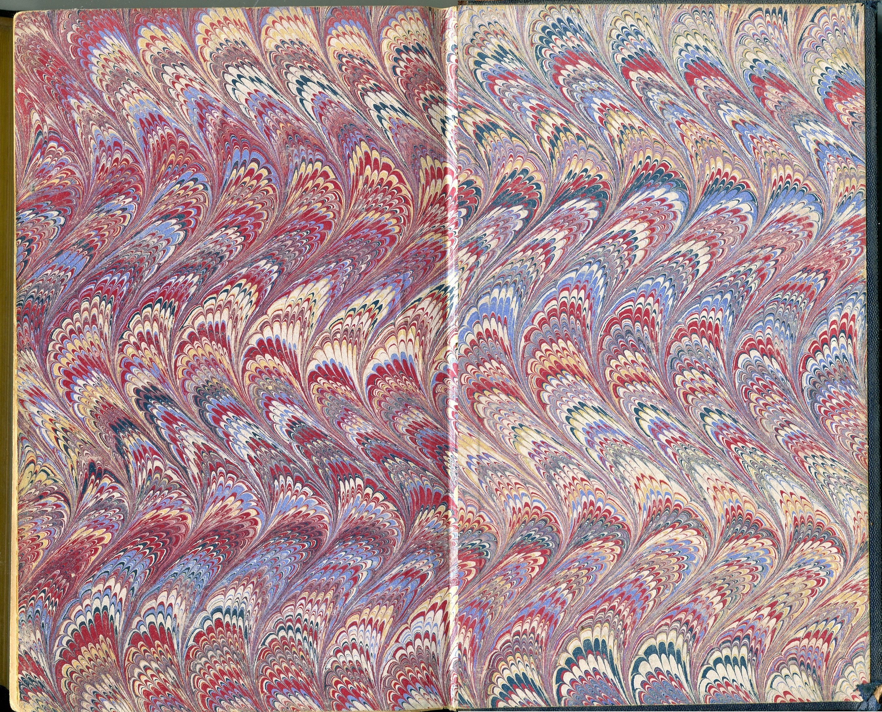 Endpapers of Gustaf II Adolf (Anders Fryxell) published by Norstedts in 1894.